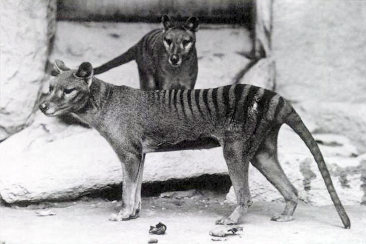 This photo is of a pair of Thylacines, a male and female, received from Dr. Goding in 1902. The Thylacine (Thylacinus cynocephalus) is a large, carnivorous marsupial also known as the Tasmanian Tiger or Tasmanian Wolf. It is now believed to be extinct. This photograph of a zoo specimen is important in recording the history of the zoo's collecting, and in some cases, such as this image of these Thylacines, they show species that are now extinct. The National Zoo opened in 1891 in an area of Rock Creek Park in Washington, D.C.